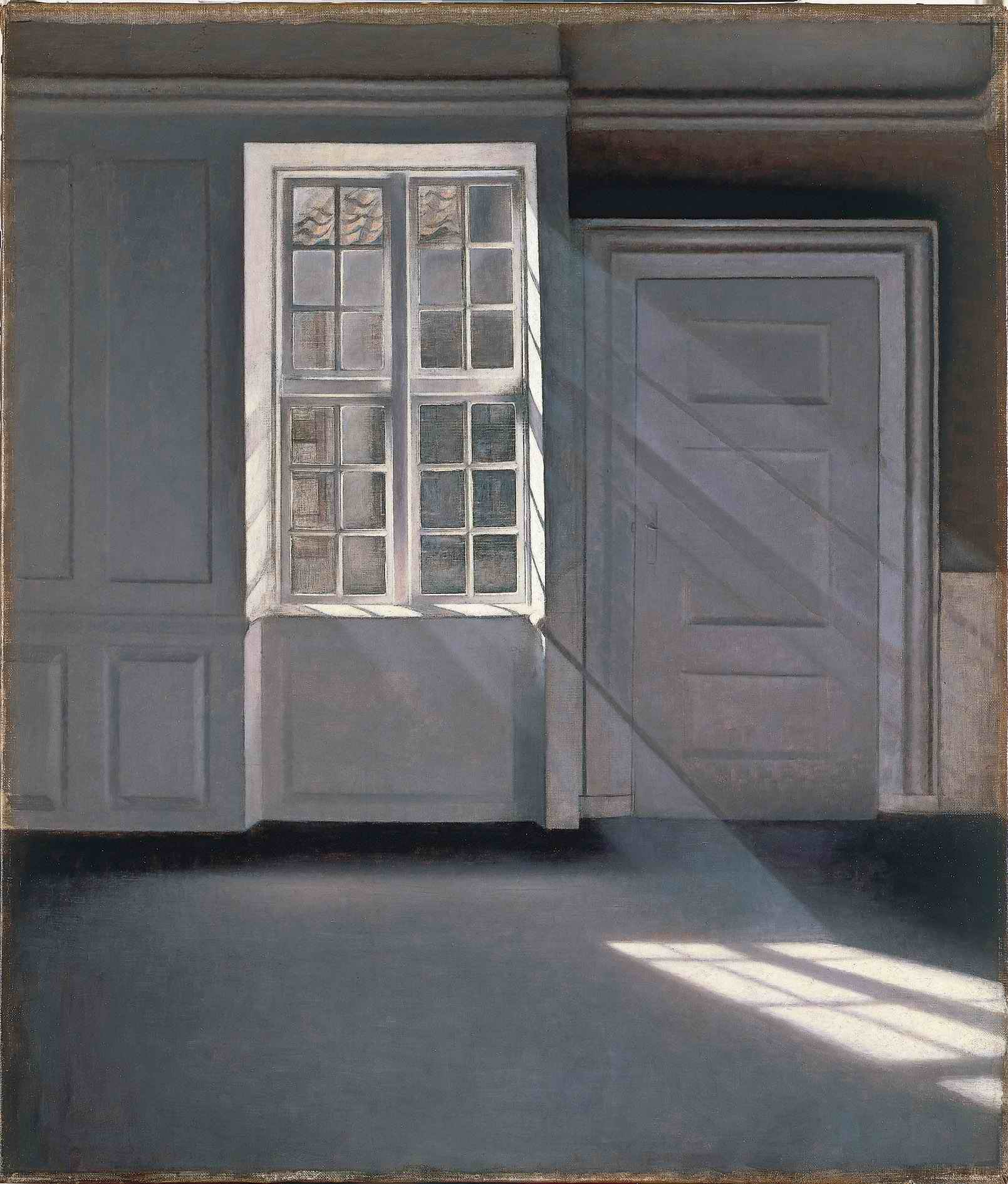 Dust Motes Dancing in the Sunbeamslabel QS:Len,"Dust Motes Dancing in the Sunbeams" label QS:Lda,"Støvkornenes dans i solstrålerne."